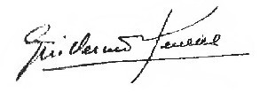 Signature of Venezuelan writer and historian Guillermo Meneses